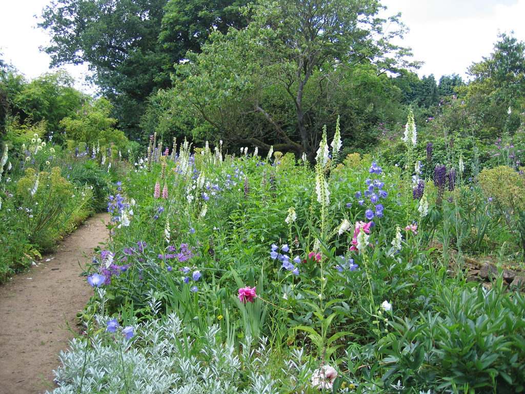 The Summer Garden at Munstead Wood (also known as the Three Corner Garden because of its triangular shape). For more information on Munstead Wood, This image is in copyright but published under a Creative Commons License with some rights reserved: you may use it on your website/blog provided you credit the photograph with a hyperlink to